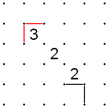 Diagonal Line of 2s terminated by 3